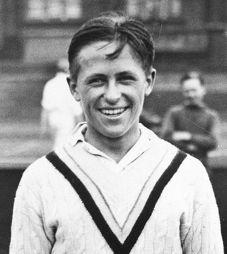 American tennis player Wilbur Coen at the Queen's Club in London.